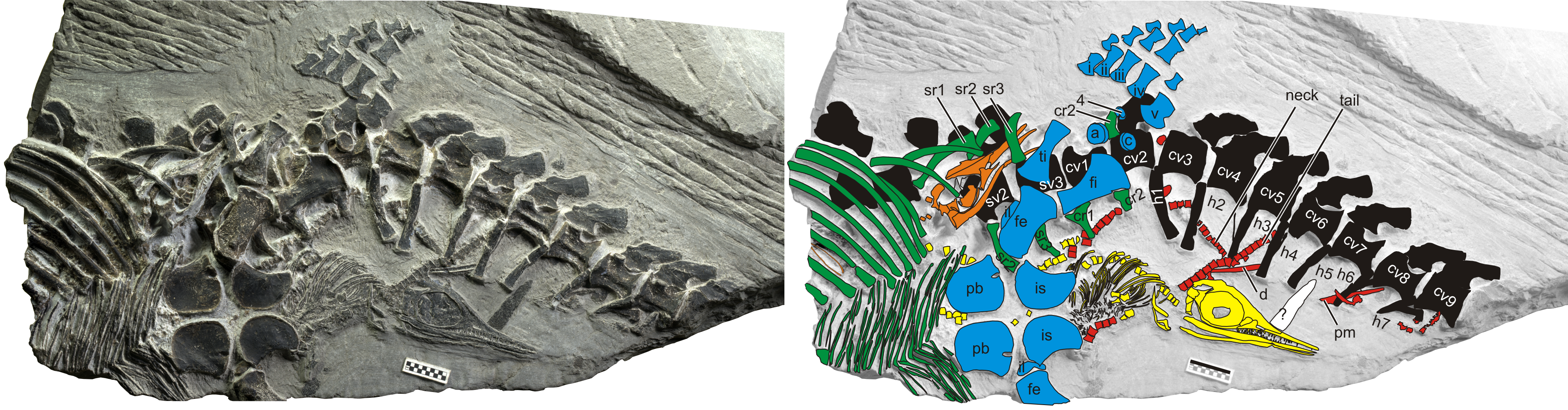 The maternal Chaohusaurus geishanensis specimen (AGM I-1) with three embryos. Color coding indicates: black, maternal vertebral column, including neural and haemal spines; blue, maternal pelvis and hind flipper; green, maternal ribs and gastralia. Embryos 1 and 2 are in orange and yellow, respectively, whereas neonate 1 is in red. Scale bar is 1 cm. Abbreviations: i-v, metatarsals; 4, fourth distal tarsal; a, astragalus; c, calcaneum; cr, caudal rib; cv, caudal vertebra; d, dentary; fe, femur; fi, fibula; h, haemal spine; il, ilium; is, ischium; pb, pubis; pm, premaxilla; sr, sacral rib; sv, sacral vertebra; and ti, tibia.